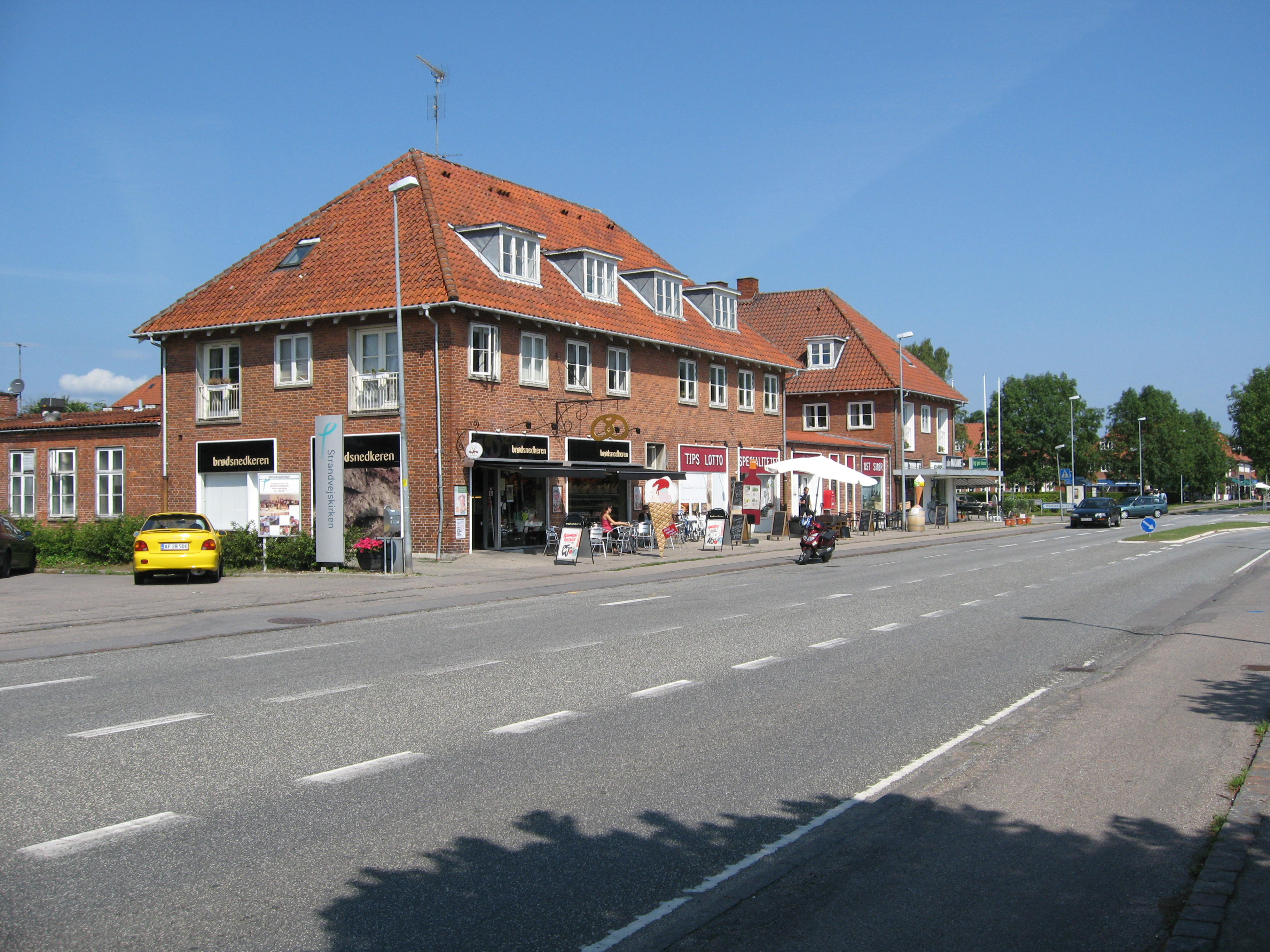 Humlebæk Strandvej, the main street in Humlebæk, Zealand, Denmark.